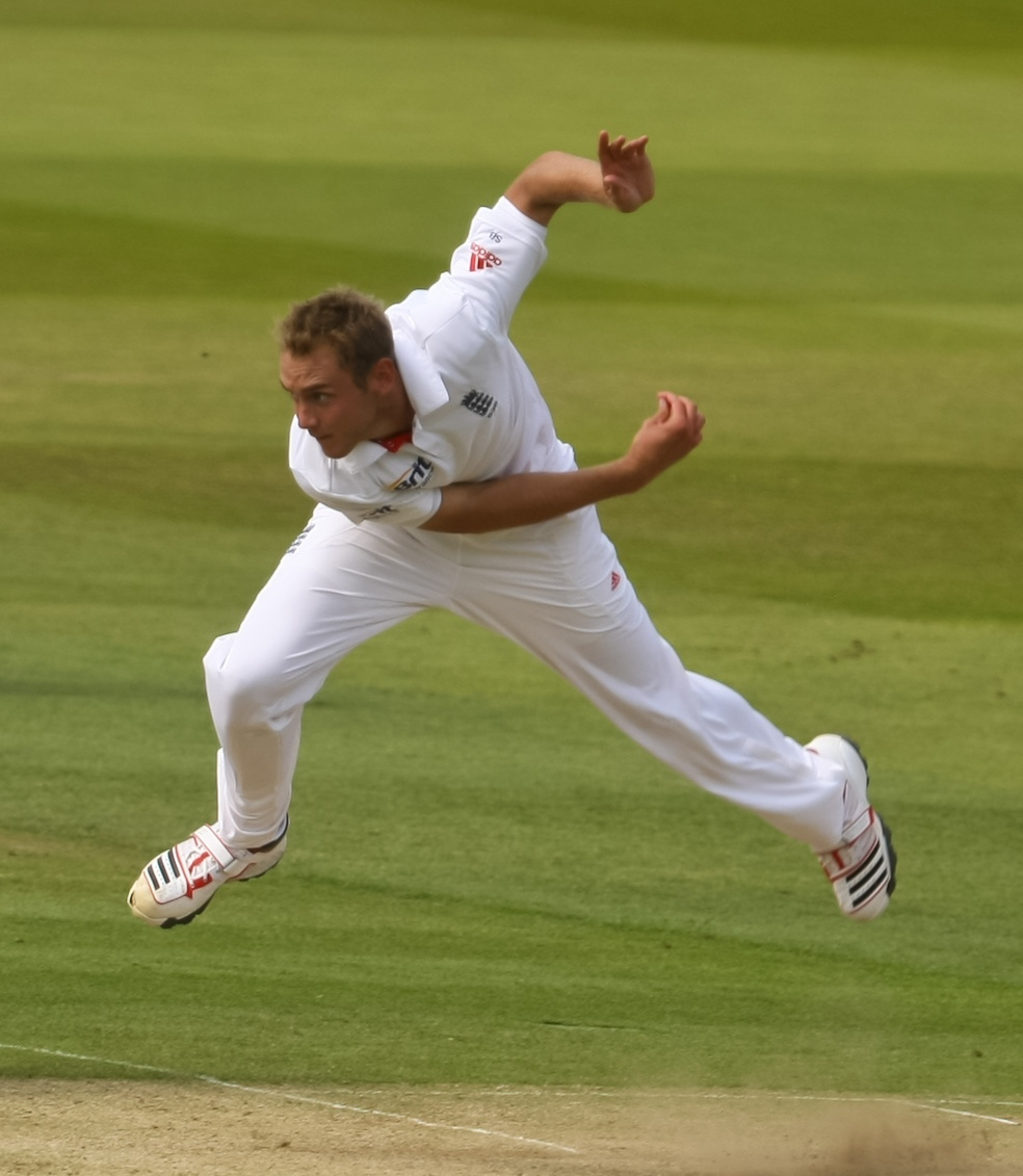 Stuart Broad bowling at Lord's in the second Test against Sri Lanka. Scorecard.